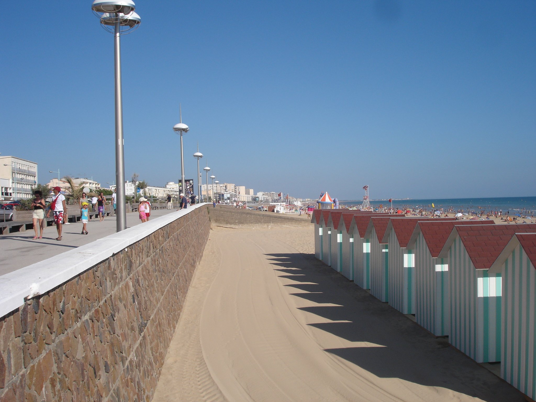 France, AVendée (85), Saint-Jean-de-Monts